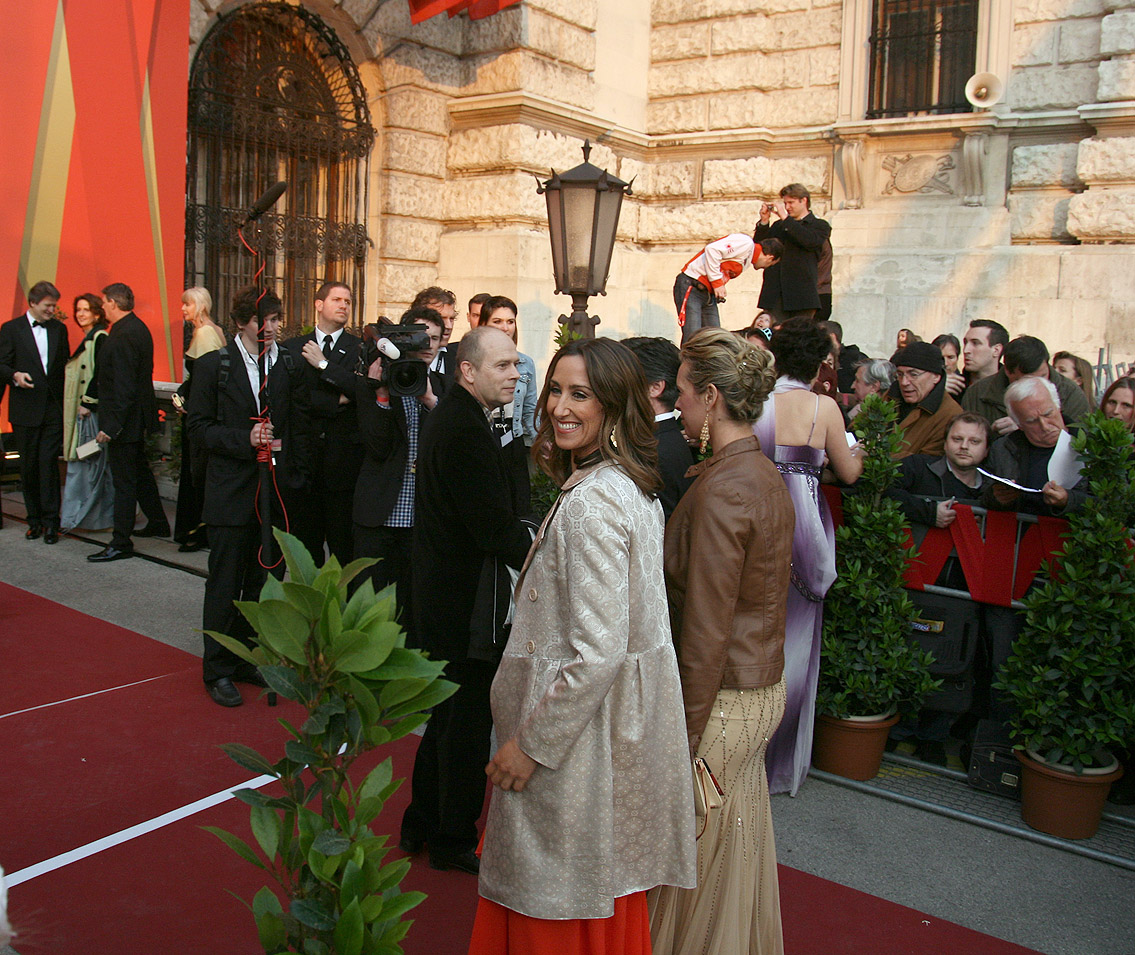 Kati Bellowitsch at the Romy TV awards (Hofburg Imperial Palace in Vienna)